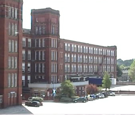 Lily (No.1) Mill, Shaw, 2004.